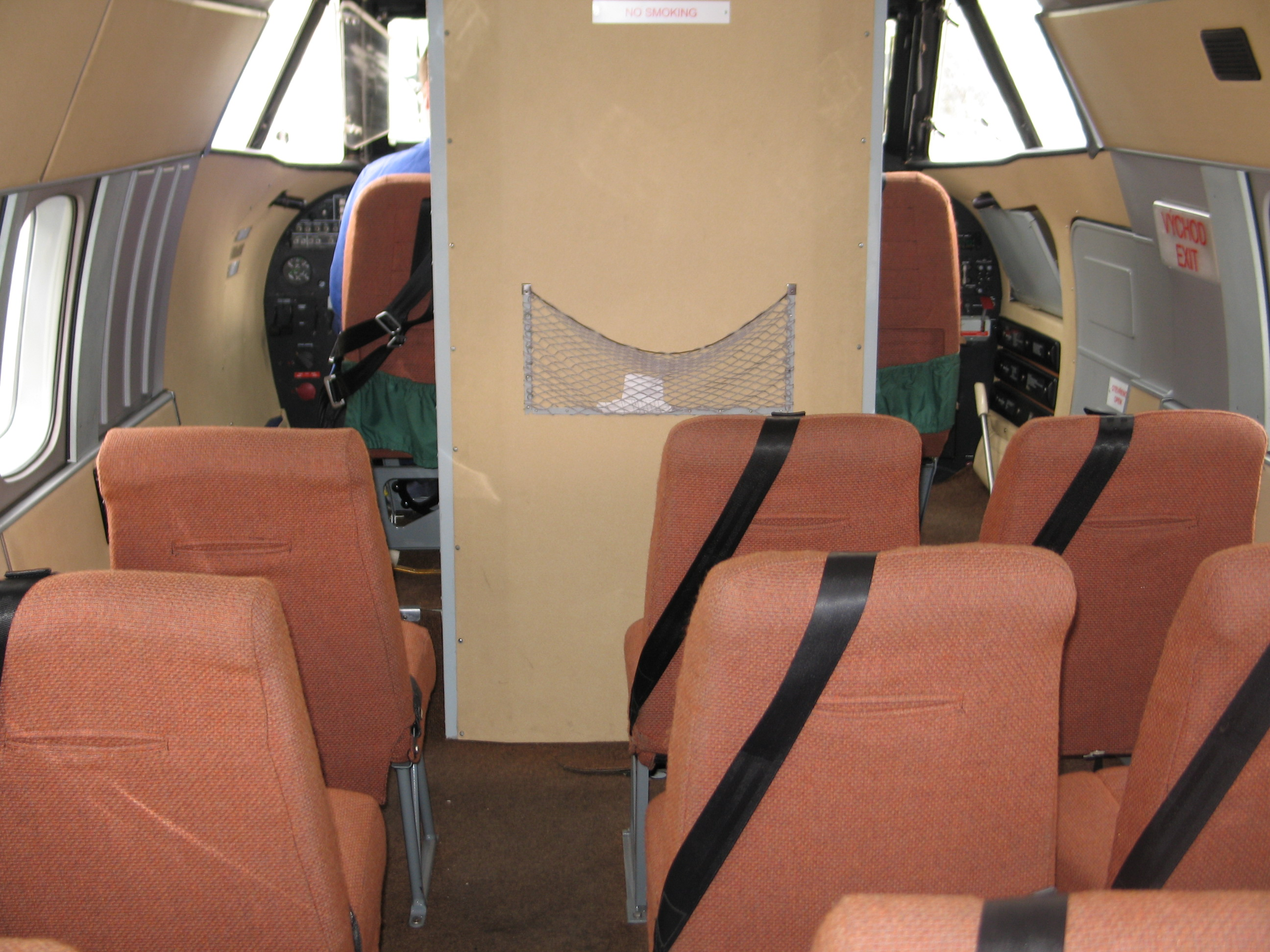 inside of L-410, Kbely museum, Prague